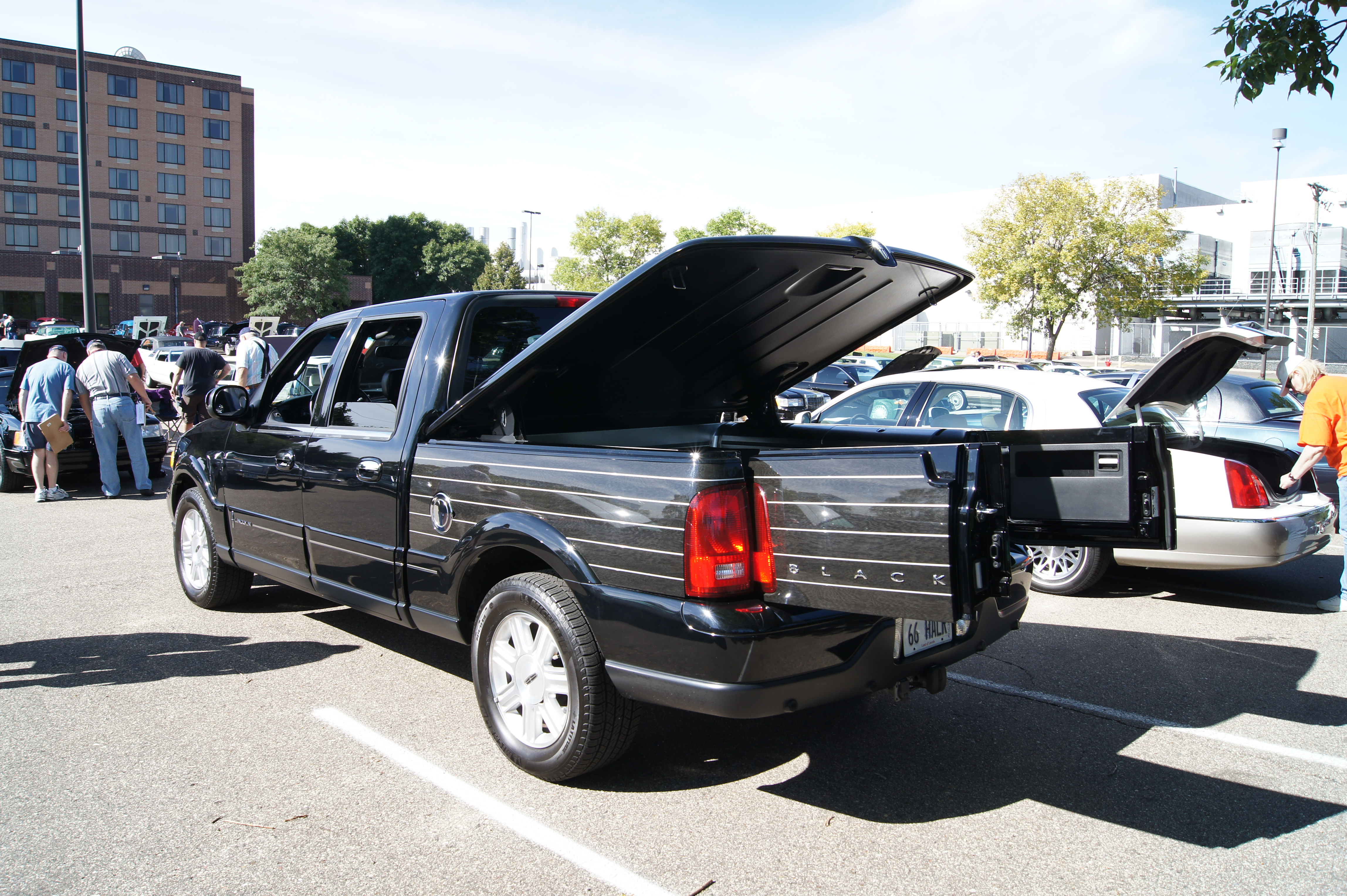 Lincoln & Continental Owners Club 2012 Mid-America National Meet August 15 - 19, 2012 Park Plaza Hotel, 4460 West 78th Street Circle Bloomington, Minnesota Hosted by the North Star Region